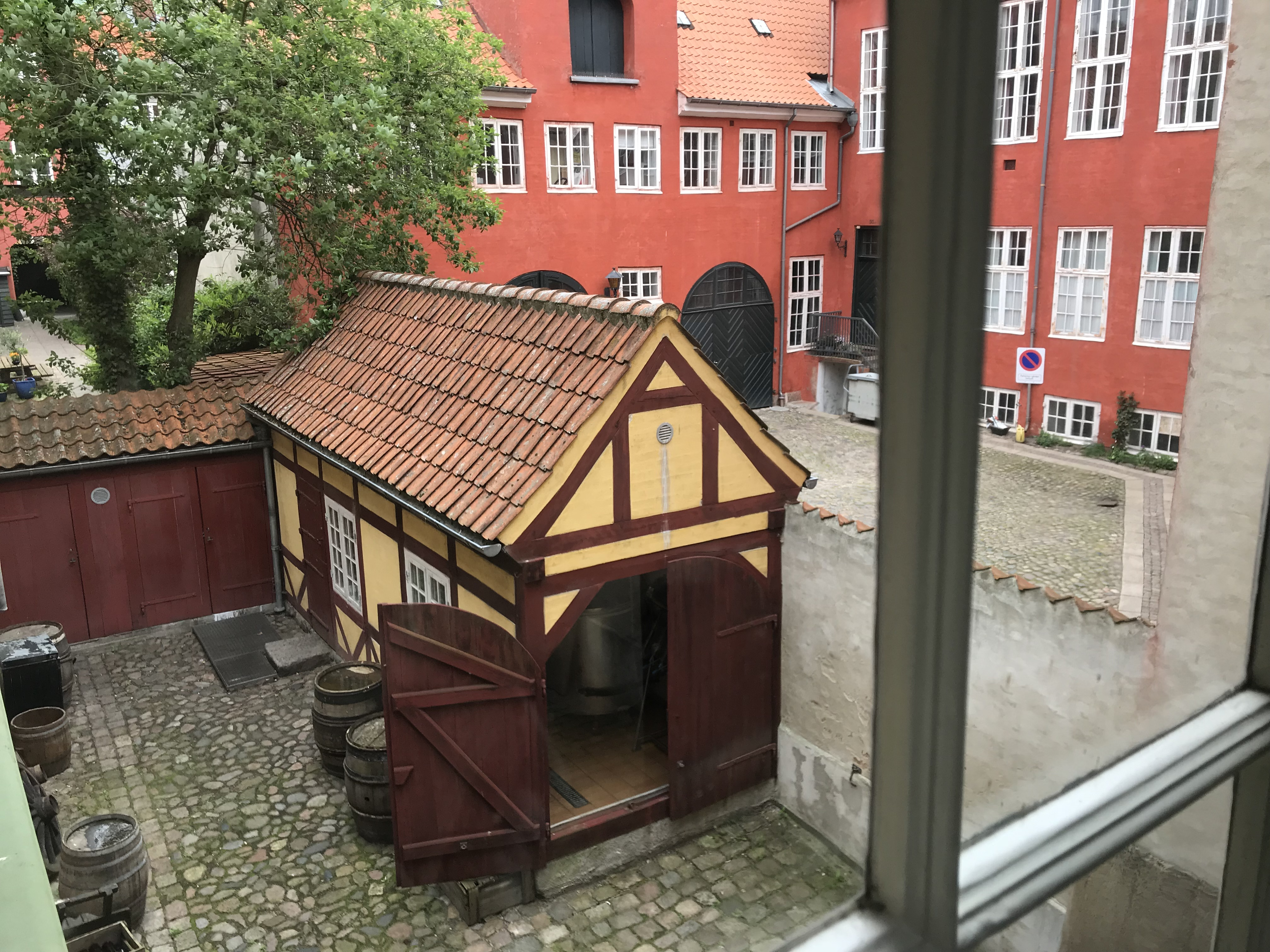 Microbrewery of Wiibroe Friends in the backyard of Skibsklarerergaarden in Helsingoer in Denmark. May 22, 2019